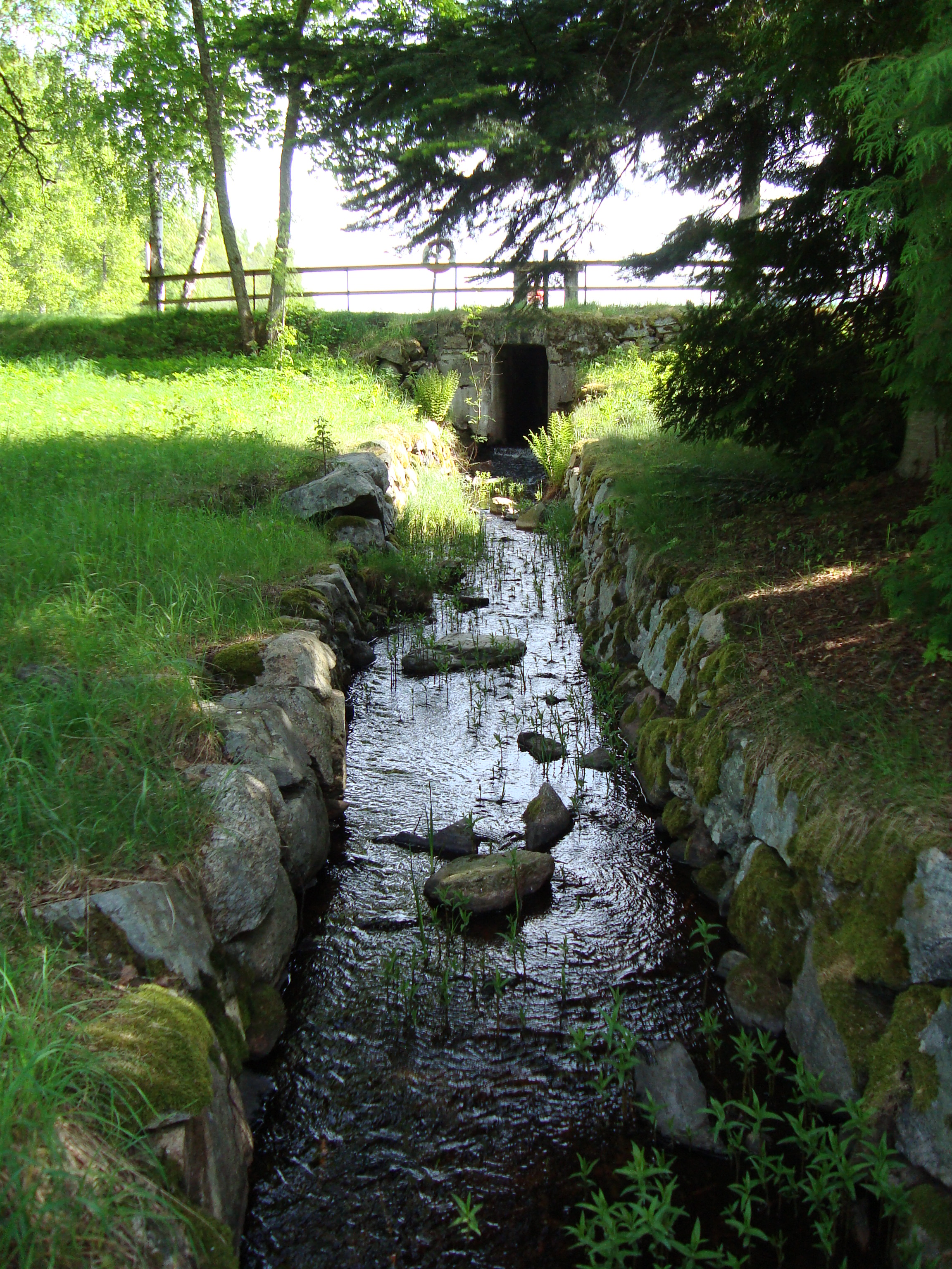 Former iron works of Kratten, Hofors Municipality, Sweden.